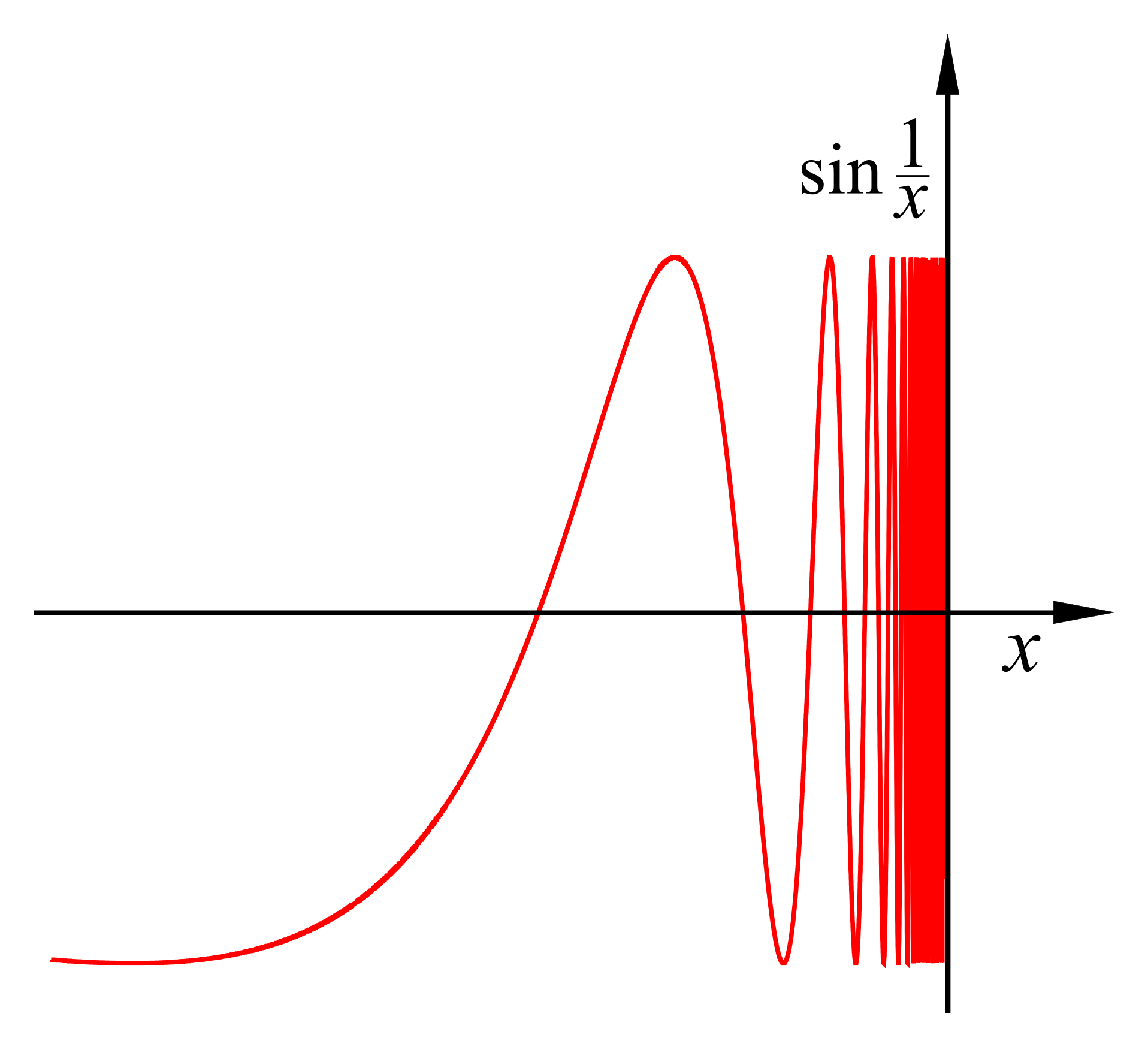 function sin 1/x